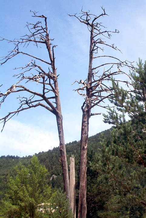 Pi de les tres branques (Three-branched pine) symbol of the three Catalan crowns: Barcelona, Aragon and Valencia.